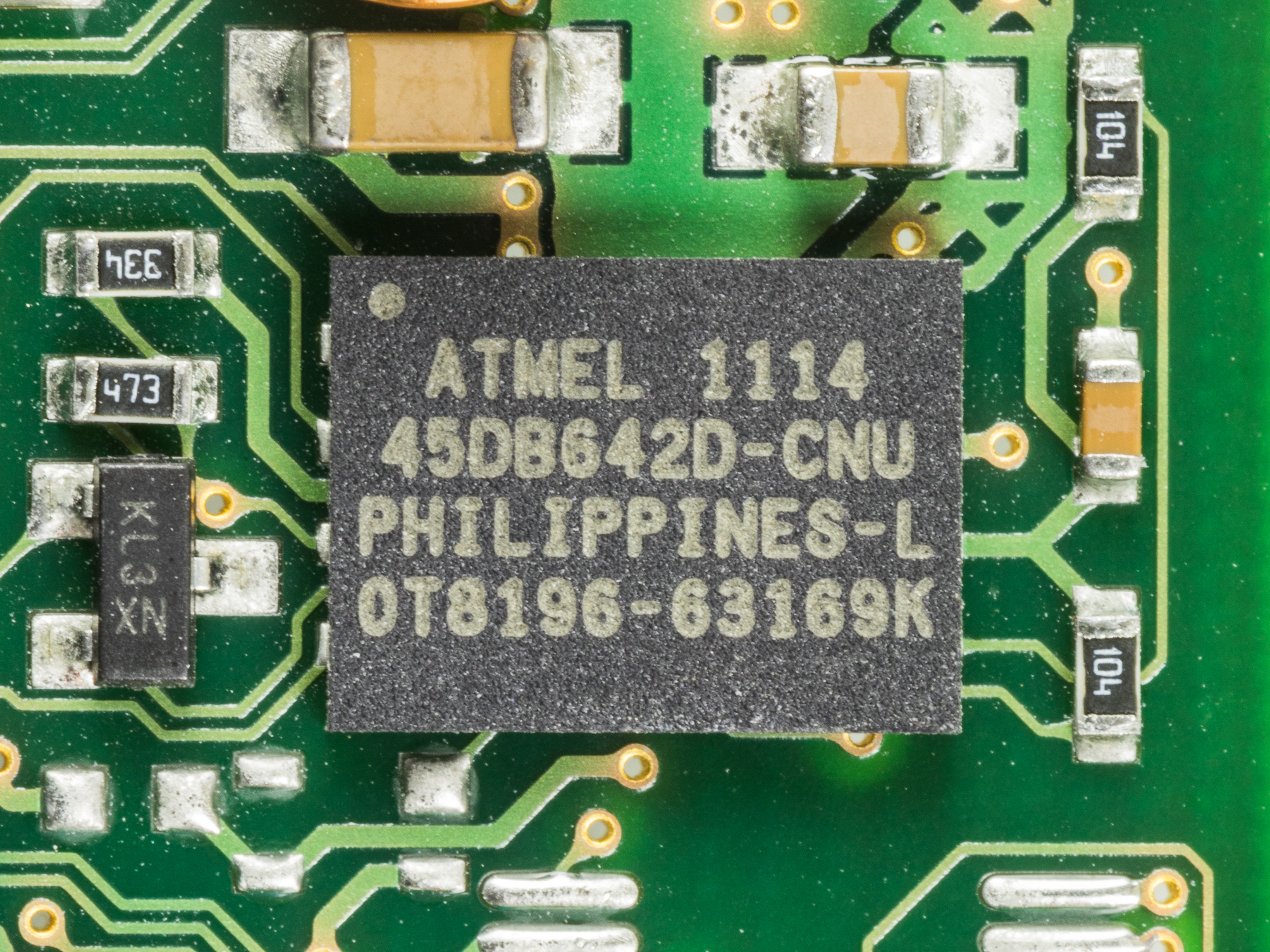 Ingenico Healthcare ORGA 6041 - board - Atmel AT45DB642D-CNU - 64-megabit 2.7-volt Dual-interface DataFlash. Package: 8-lead, 6 x 8 mm CASON